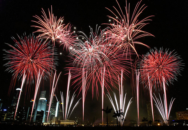 Team Singapore fireworks display from Singapore Fireworks Festival 2006, 8th August 2006. ISO 100, f/22, 18 seconds, no tripod. Shot in prone position. Photo by Ngoh Seh Suan (